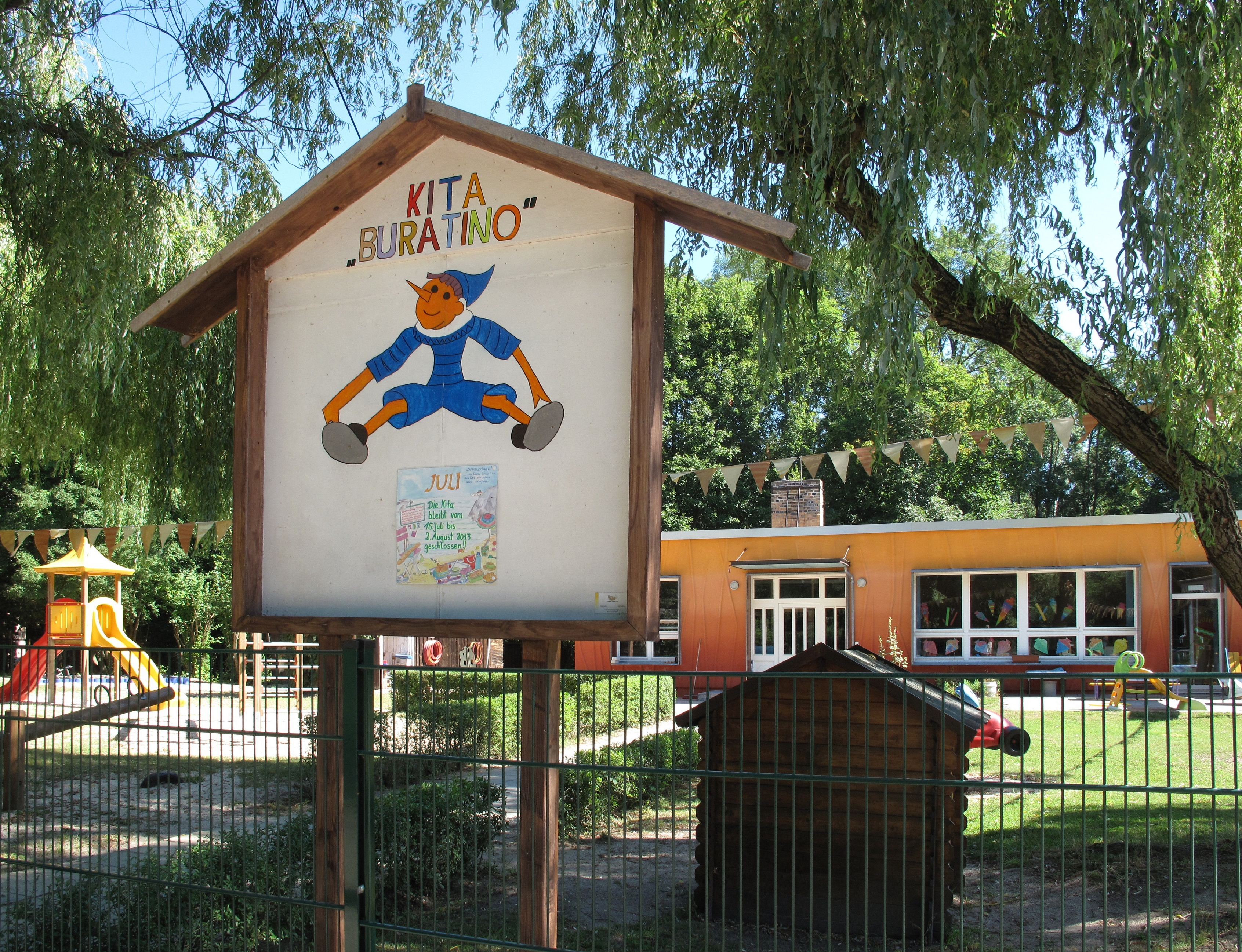 Day care (German: Kindertagesstätte, Kita in short) in Kummersdorf. The village Kummersdorf is a part of the town Storkow, District Oder-Spree, Brandenburg, Germany. The village was first mentioned in 1442 and had on January 1, 2013 507 inhabitants. It is situated in the Dahme-Heideseen Nature Park.